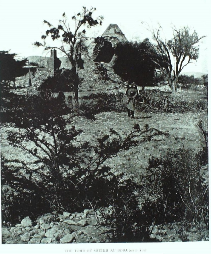 Qabriga barakaysan ee Sheekh Awbube